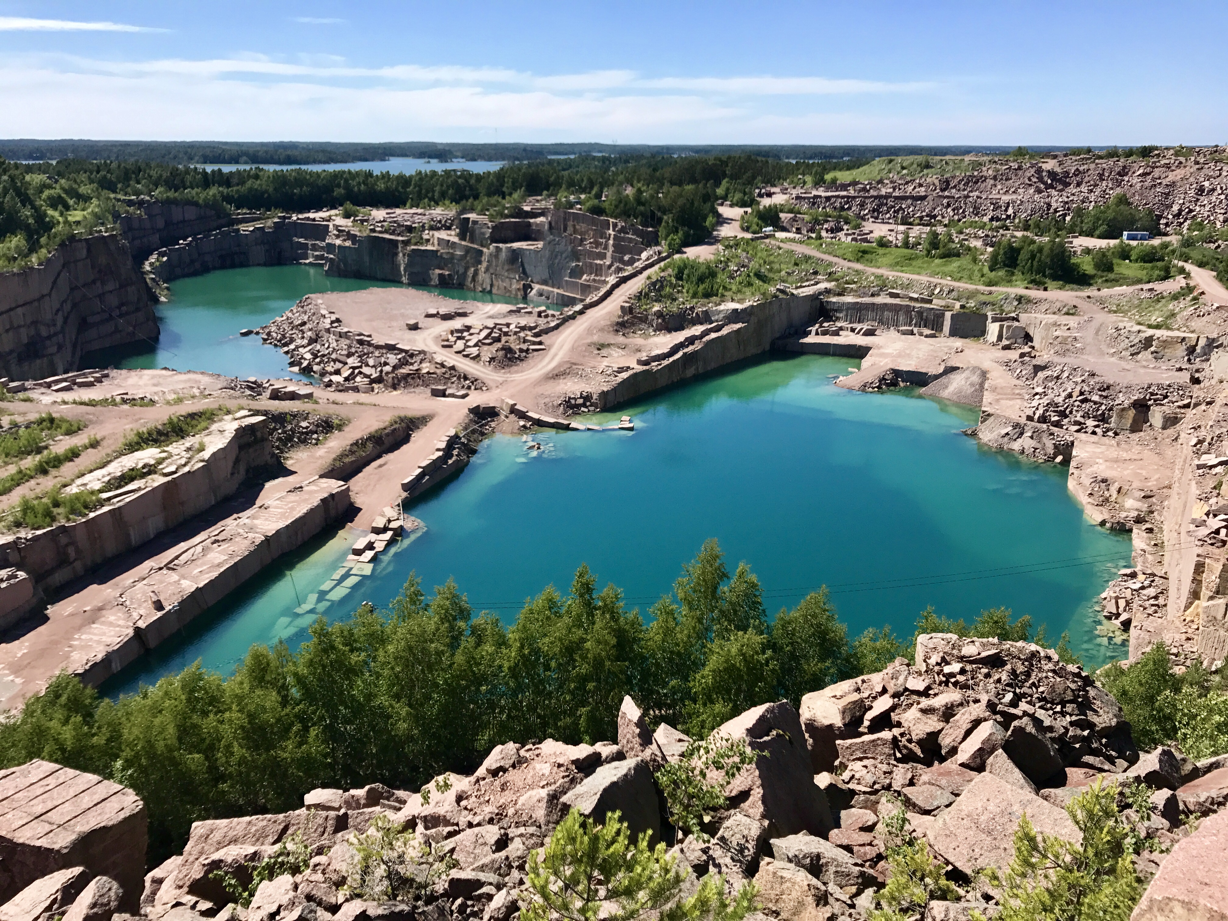 Hilloinen dimension store quarry in Taivassalo, Finland.